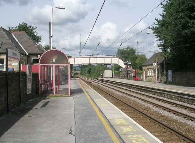 Menston Station - Station Road